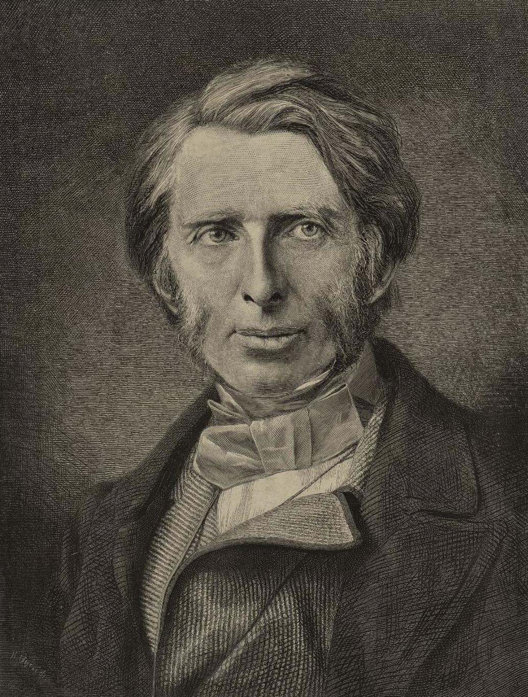 A portrait from the Welsh Portrait Collection at the National Library of Wales. Depicted person: John Ruskin – English writer and art critic